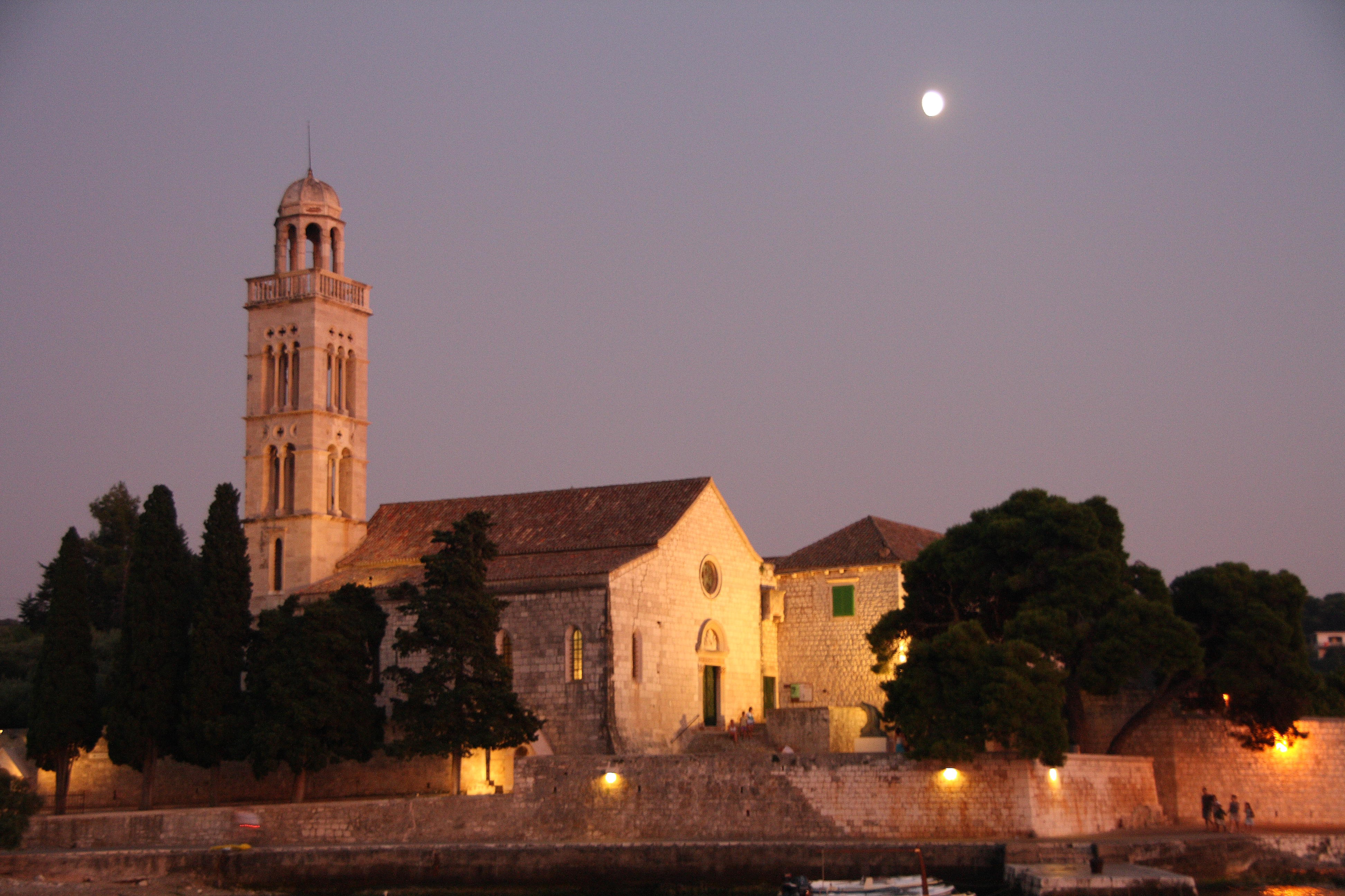 The cloister of the Franciscan Order at Hvar.